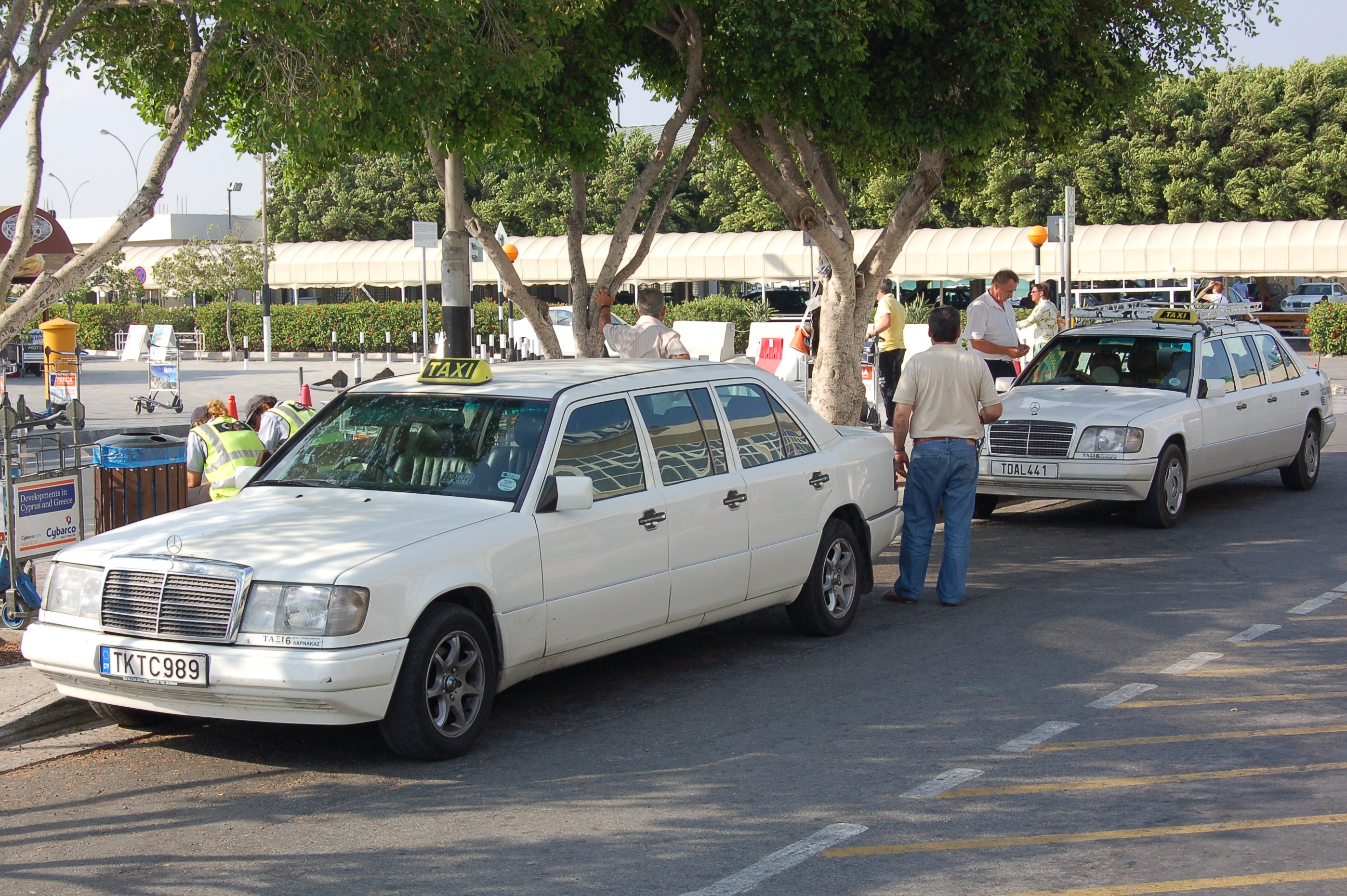 Mercedes-Benz V124 taxis outside the terminal at Larnaca International Airport.